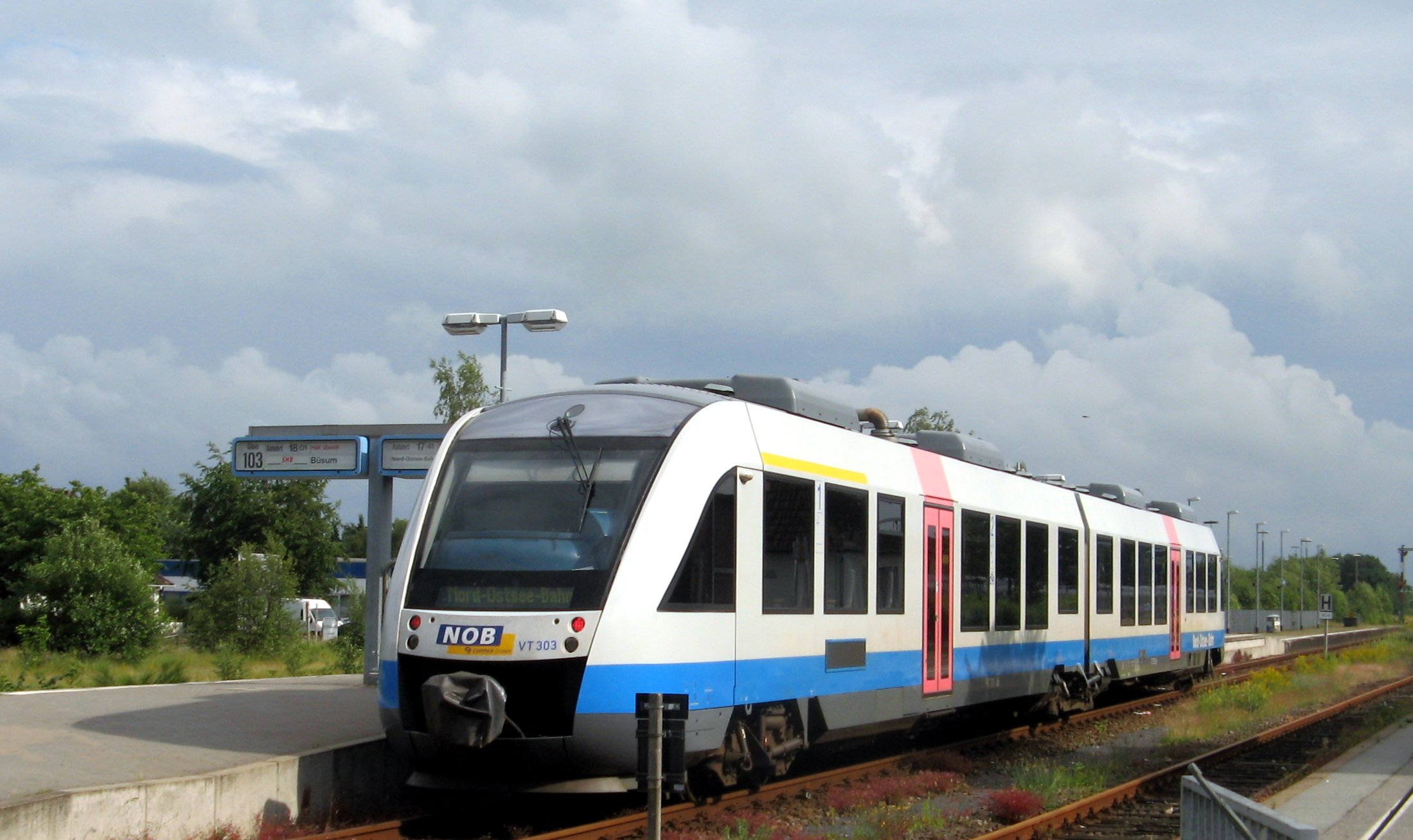 Train of the Nord-Ostsee-Bahn at the train station Heide, going to Itzehoe